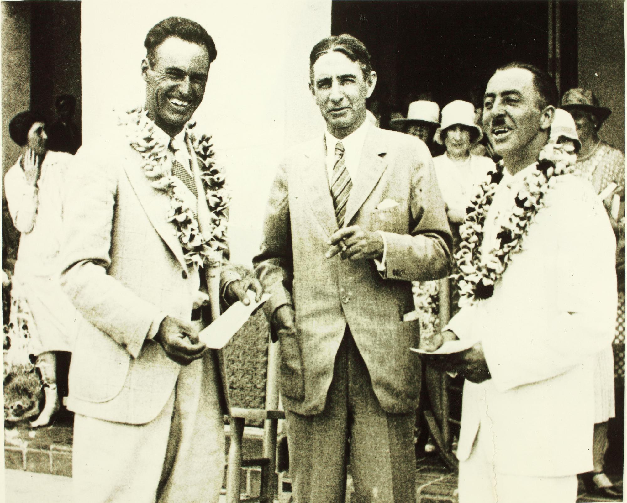 Catalog #: 10_0014476 Title: Dole Air Race Additional Information: ""Woolaroc"" Travel Air 5000 NX869 Tags: Dole Air Race, ""Woolaroc"" Travel Air 5000 NX869 Repository: San Diego Air and Space Museum Archive